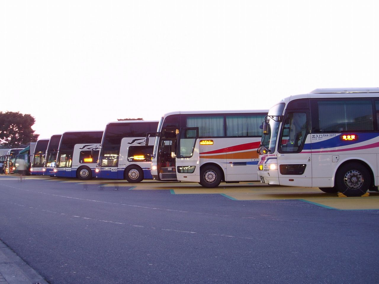 Tomei Expway Fukuyama Service Area